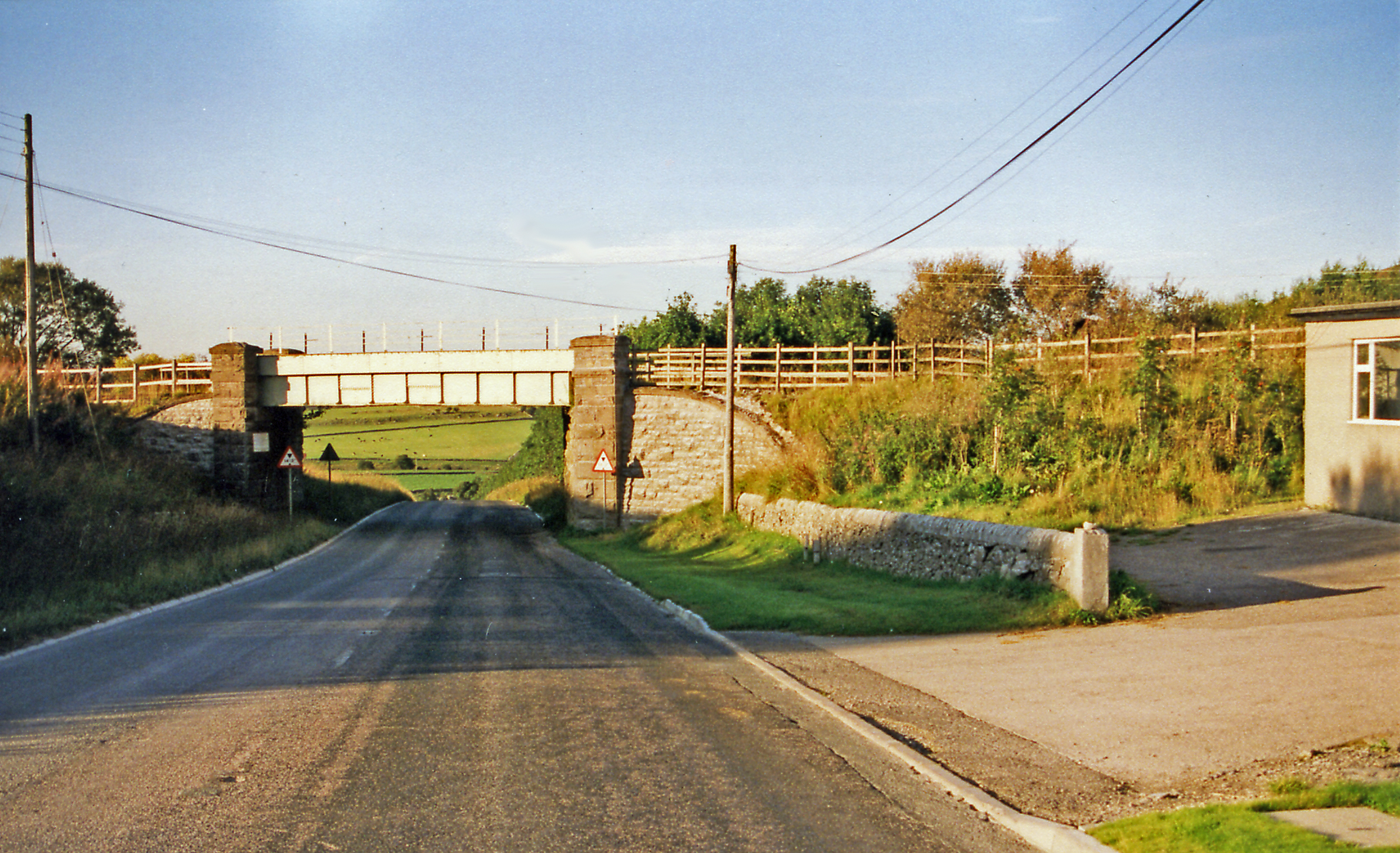 Site of Hindlow station, 1999. View northward on the B5053 road from Ashbourne, towards Buxton: the bridge carried the ex-LNW Buxton - Ashbourne line, now restricted since closure Hartington - Ashbourne from 7/10/63 to limestone traffic from Dowlow Quarry. Hindlow station had been to the left, closed to passengers 1/11/54, to goods 7/9/64.